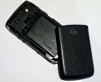 Image of smartphone BlackBerry Bold 9700 without its leatherette back, next to the leatherette back.